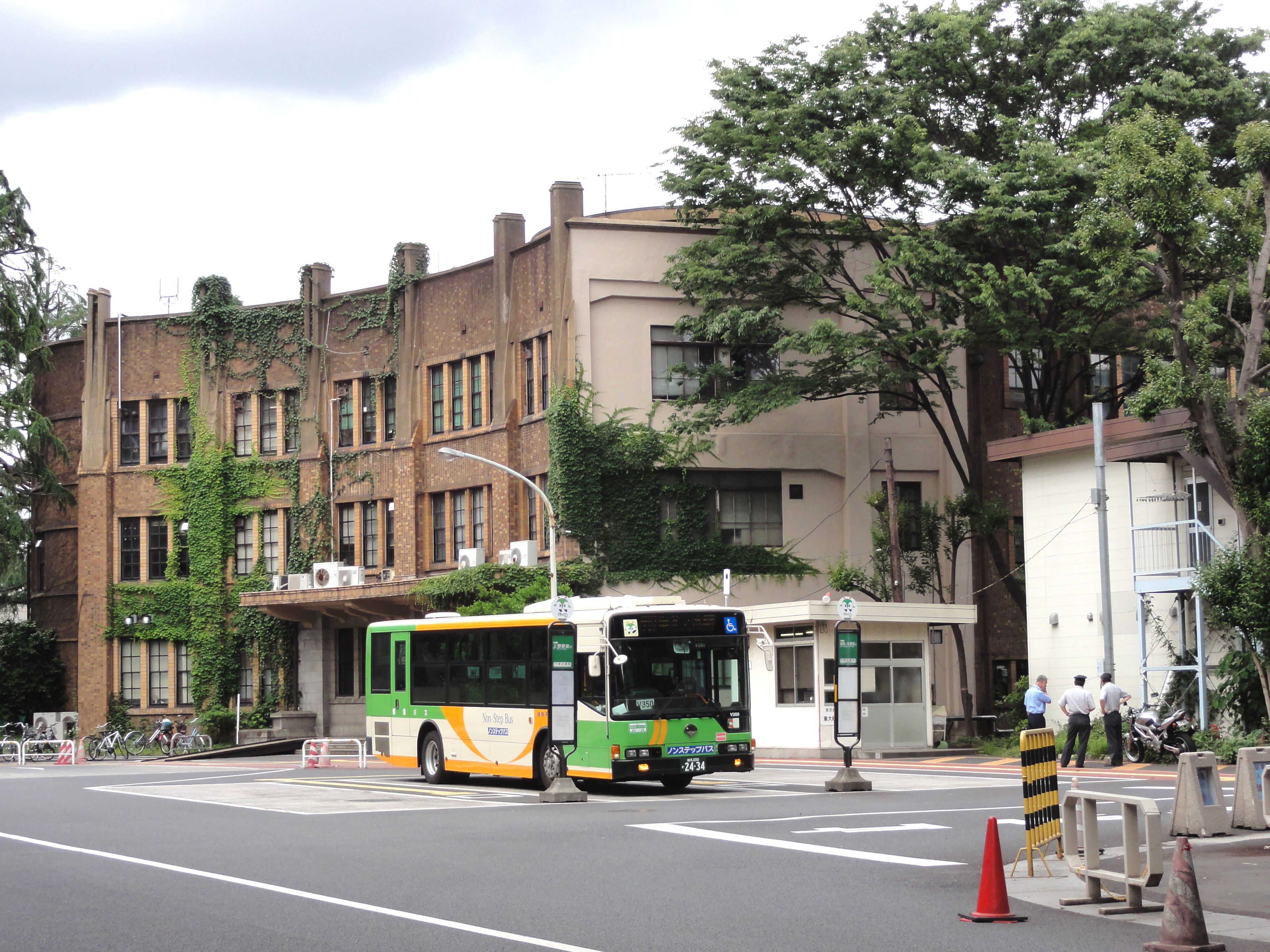 Toda-konai (Tokyo University Campus) Bus Stop